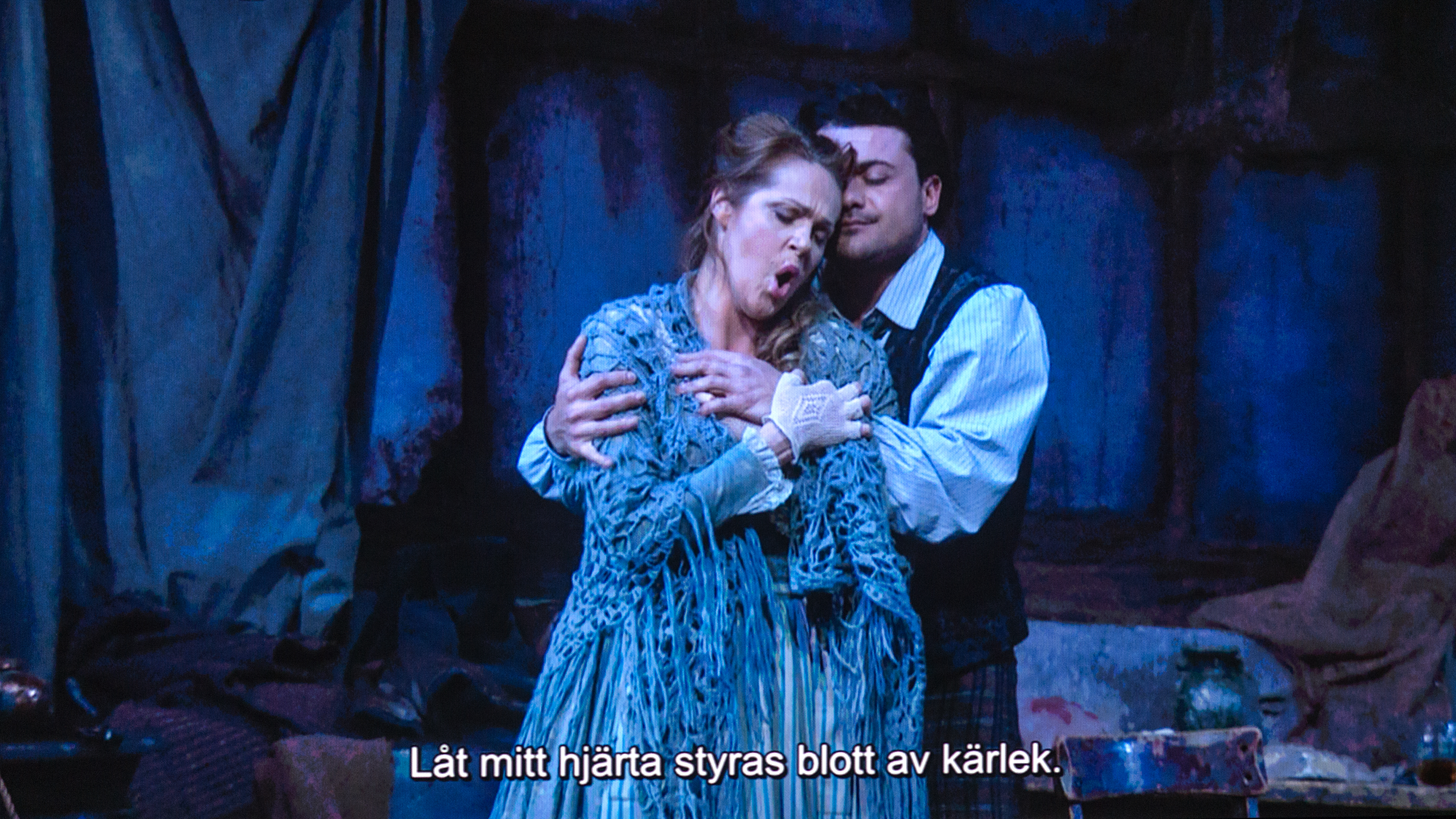 La Bohème from the Metropolitan Opera April 2014